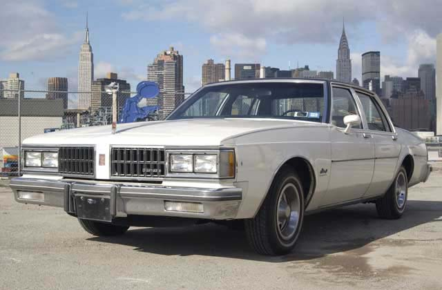 1981 Oldsmobile Delta 88, self made photo